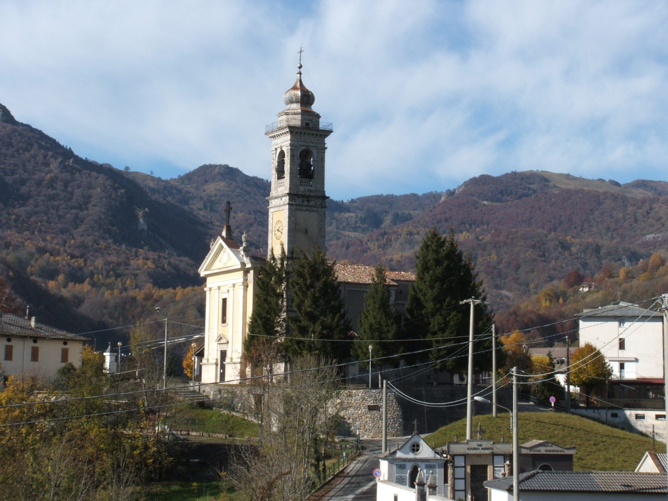 Taleggio, Bergamo, Lombardy, Italy - Pizzino church